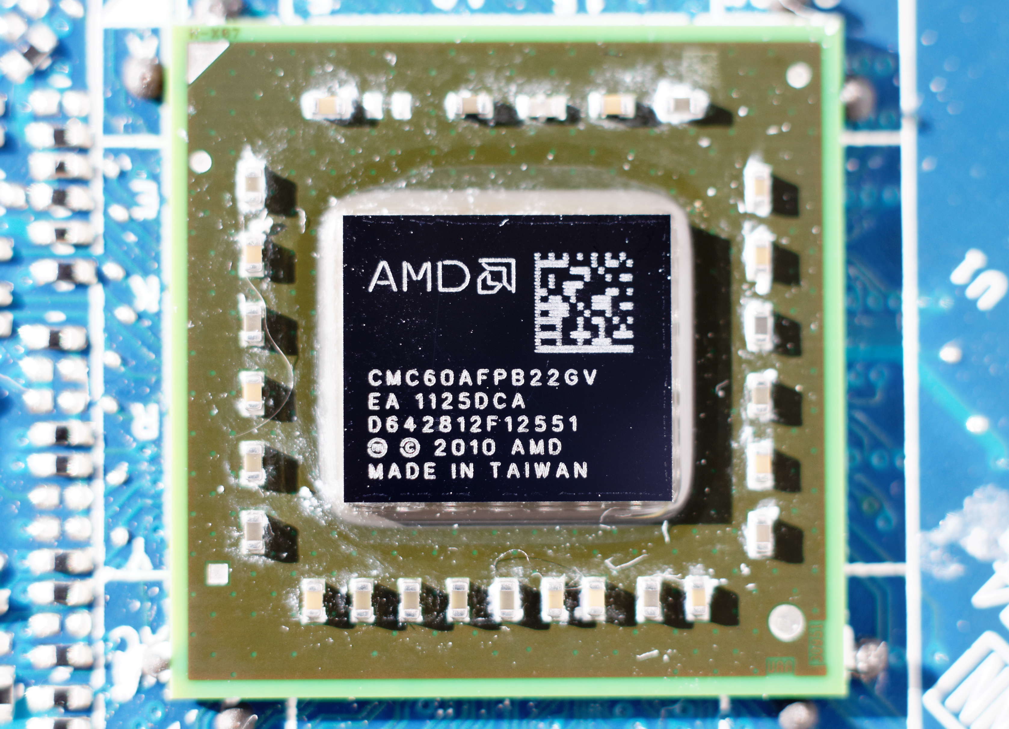 AMD CMC60